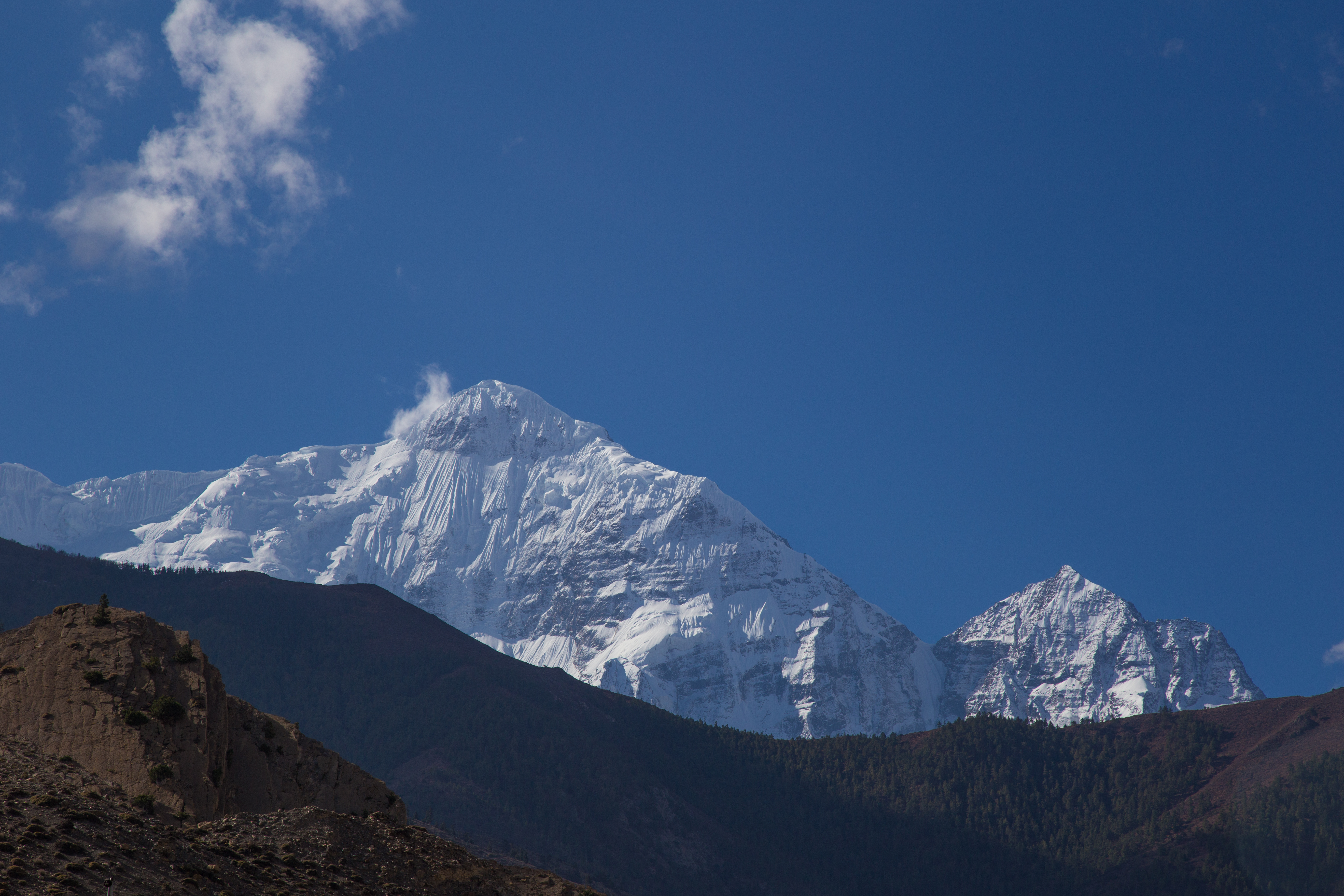 The Nilgiri Himal is a range of three peaks in the Annapurna massif in Nepal. It is composed of Nilgiri North (7061 m), Nilgiri Central (6940 m) and Nilgiri South (6839 m). Nilgiri North was first ascended in October 1962 by The Netherlands Himalayan Expedition. The team leader was a famous French climber Lionel Terray. (cc) Wiklipedia